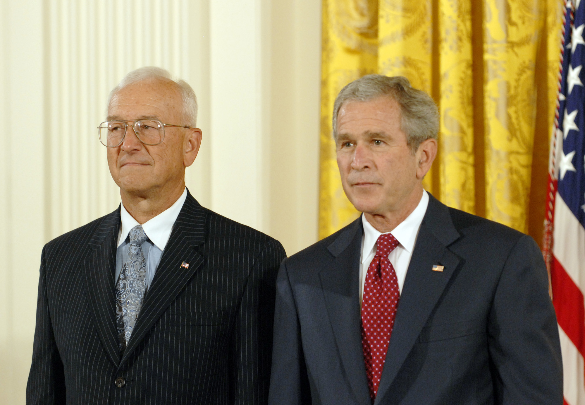 Paul G. Kaminski shown with President George W. Bush on the occasion of receiving the 2006 National Medal of Technology